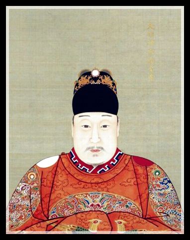 Portrait of Emperor Shenzong of Ming Dynasty China